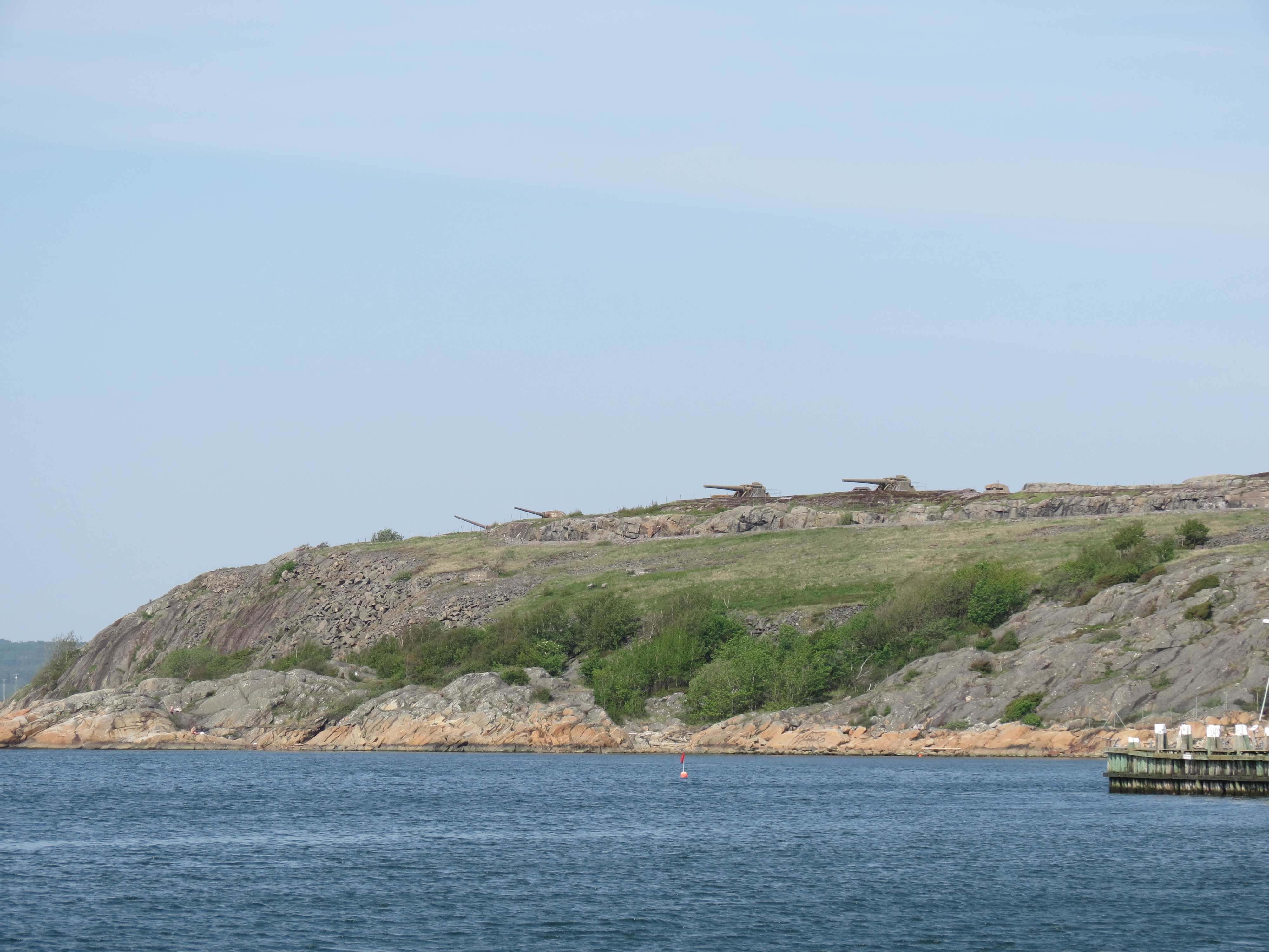 View over Älvsborgs Fortress (Oscar II's fort) in Gothenburg från the port in Långedrag.